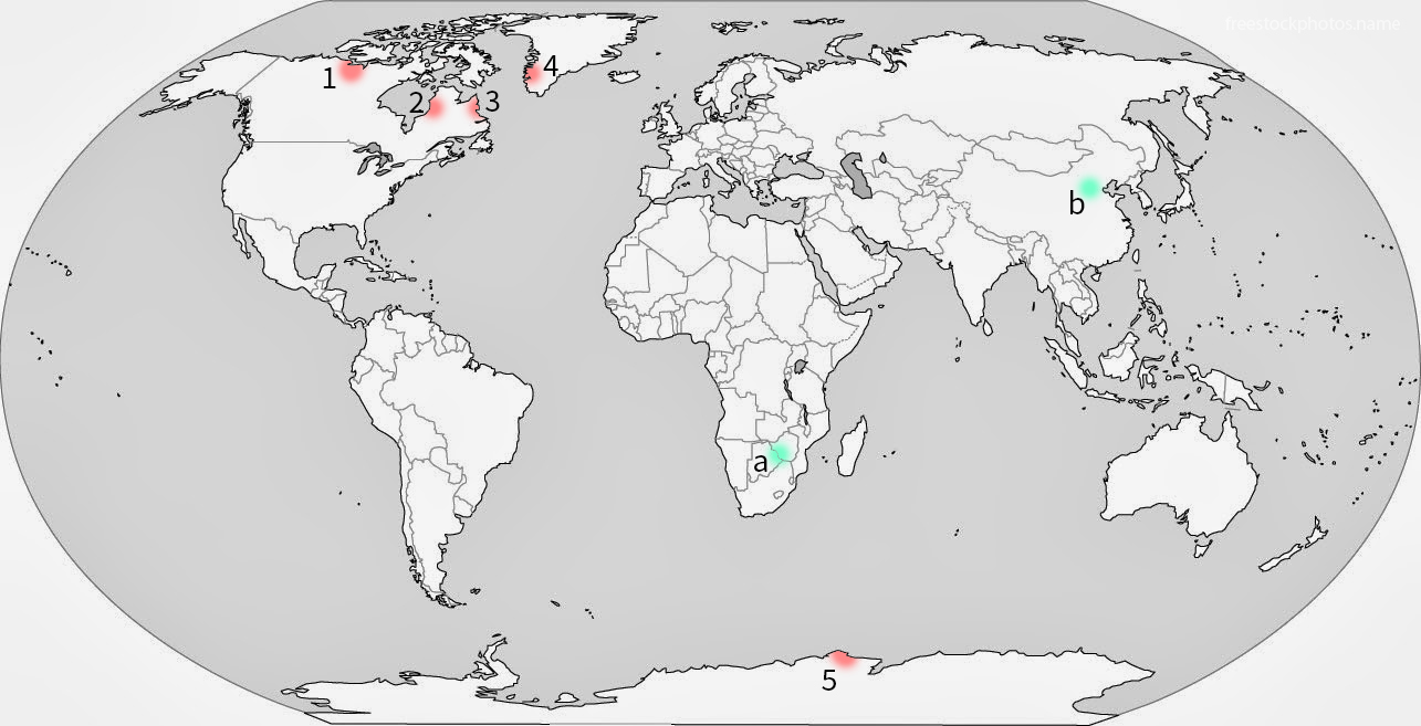 Eoarchean World occurrence